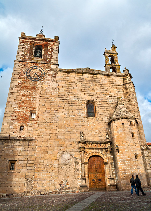 Iglesia de San Mateo. Ciudad de Cáceres. Extremadura. España.